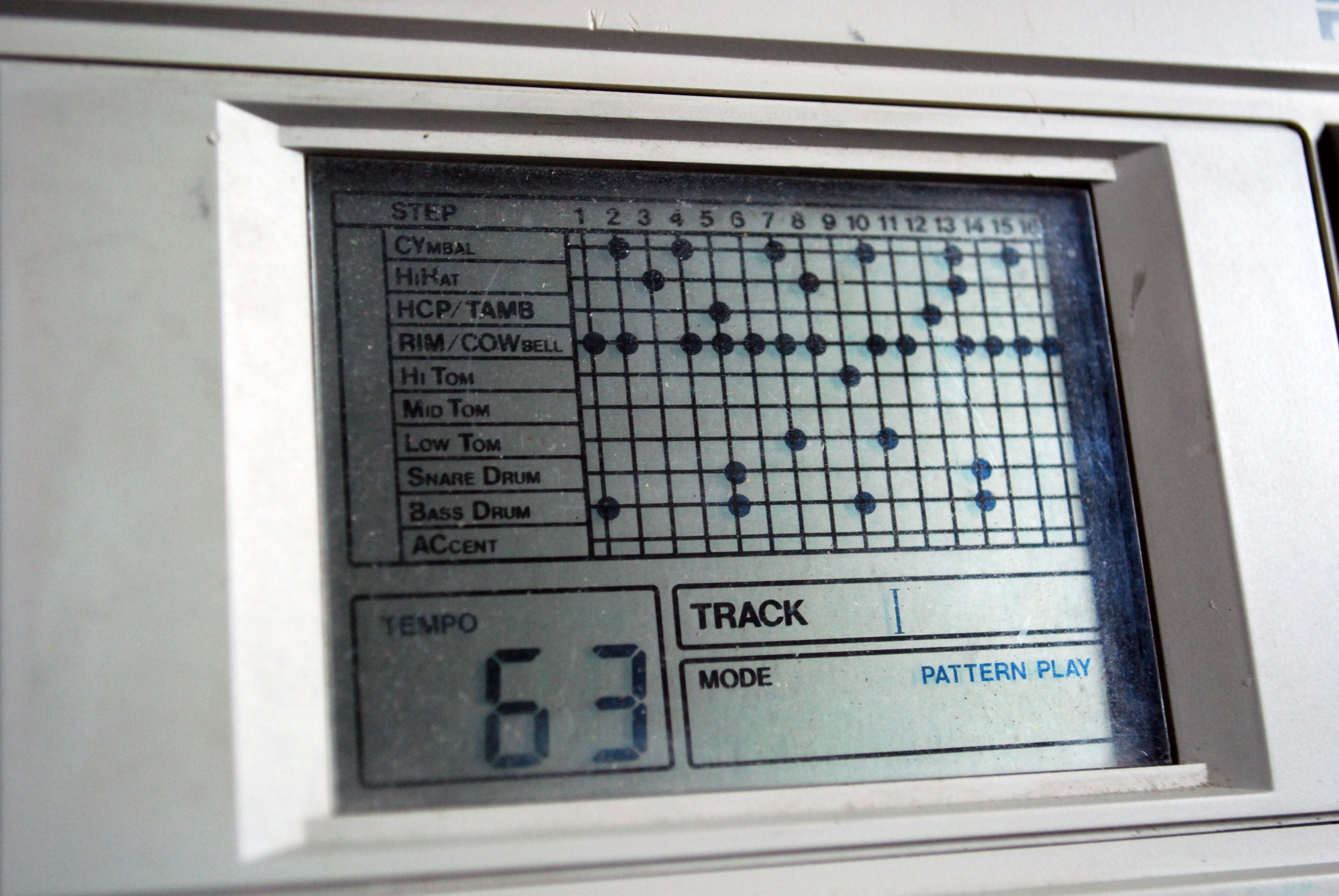 Roland TR-707 LCD